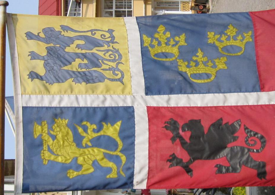 Flag of the Kalmar Union of Denmark, Norway & Sweden as flown on public street Place: Långgatan 21, Marstrand, Sweden